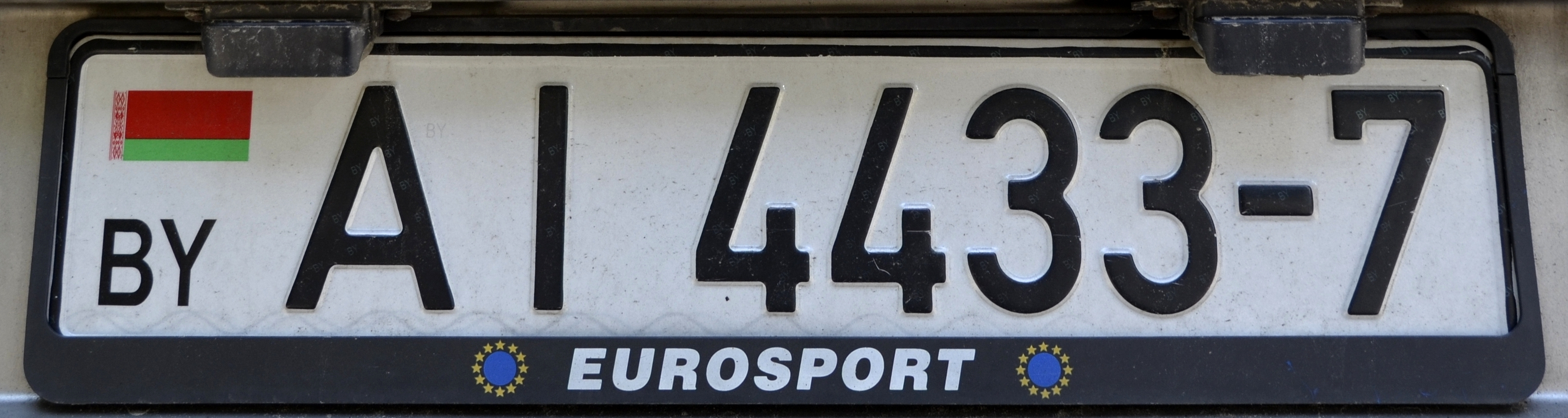 The license plate of coach bus from Belarus.